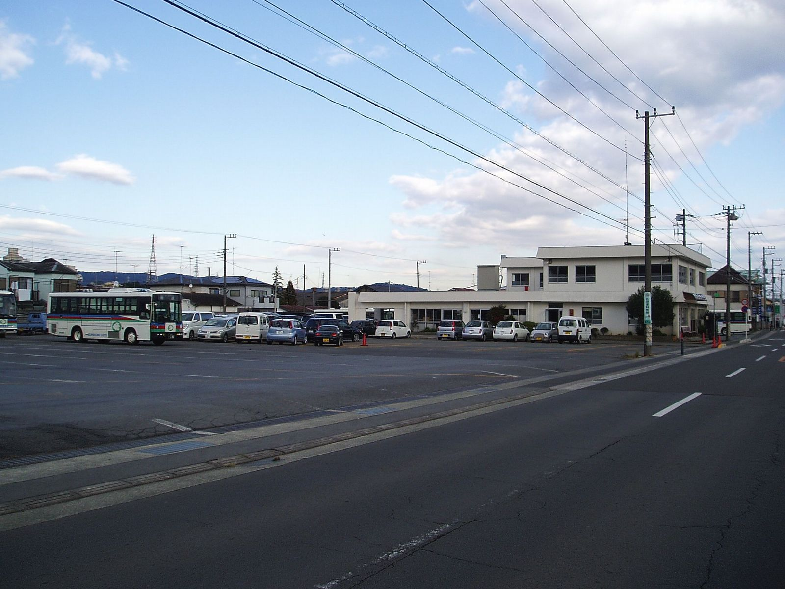 Izuhakone Bus Odawara Depot